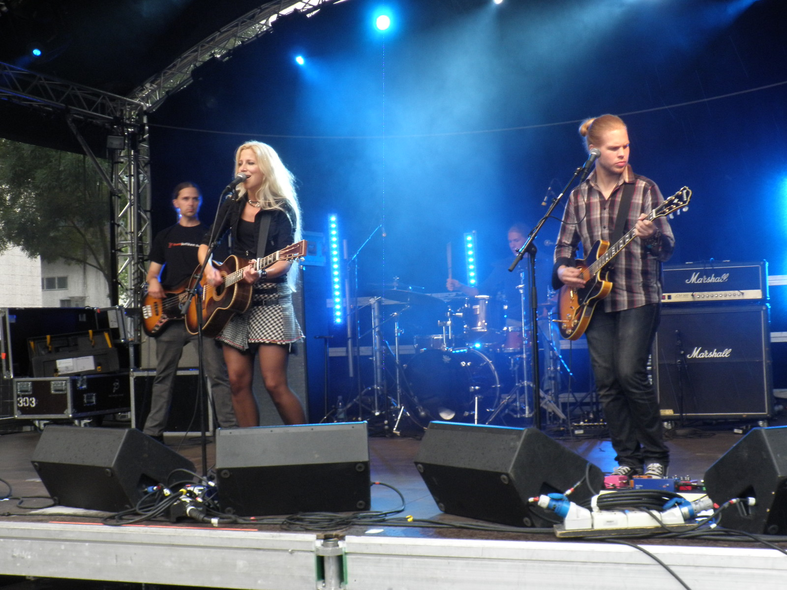 Image of Nilla Nielsen live at Helsingborgsfestivalen 2011-07-29